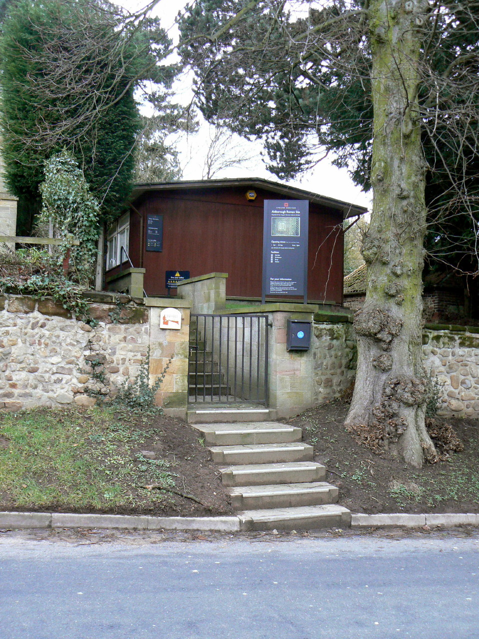 Aldborough Roman Town This was all I saw of it because the site is only open during summer months!